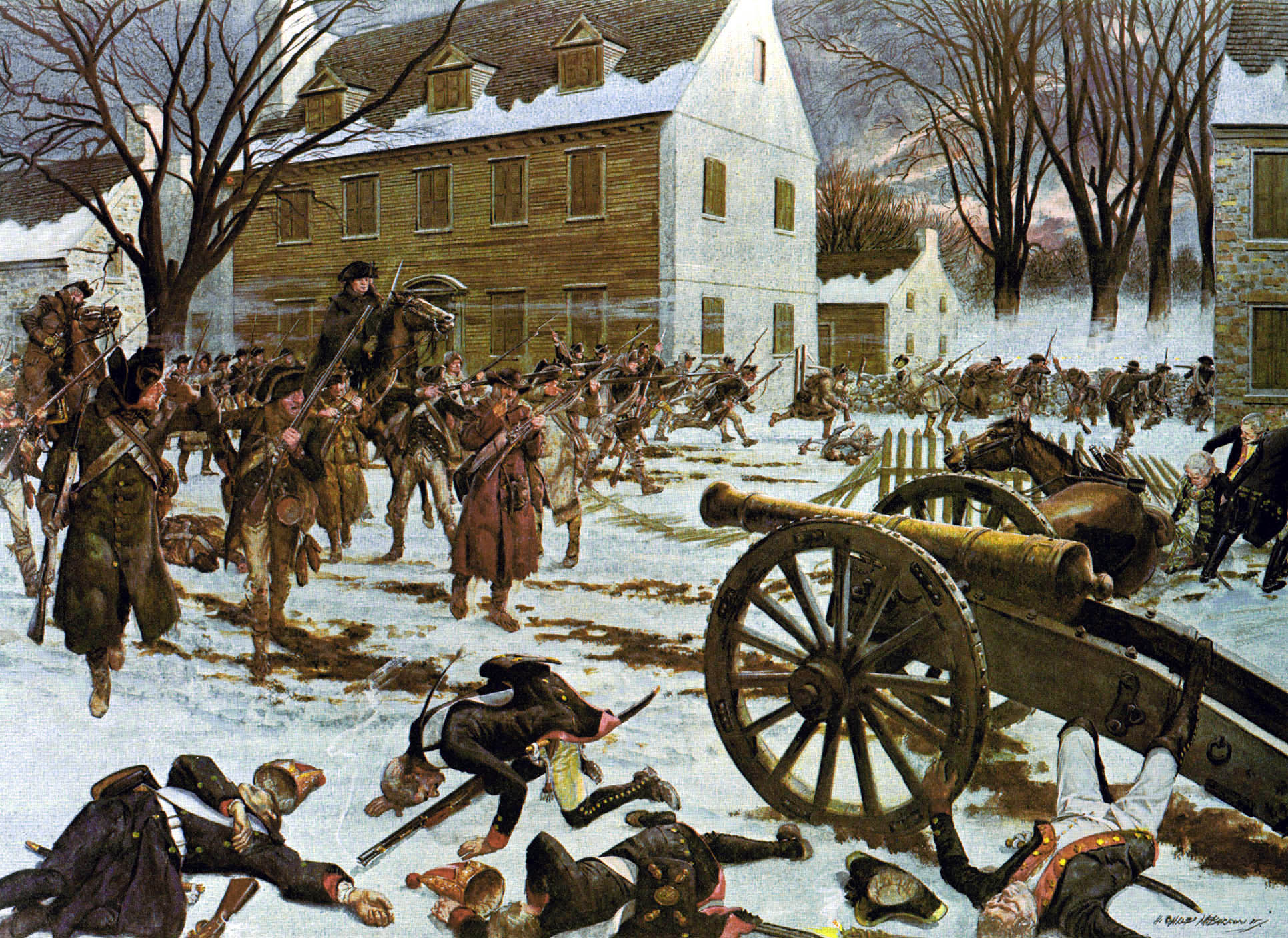 Battle of Trenton, a painting